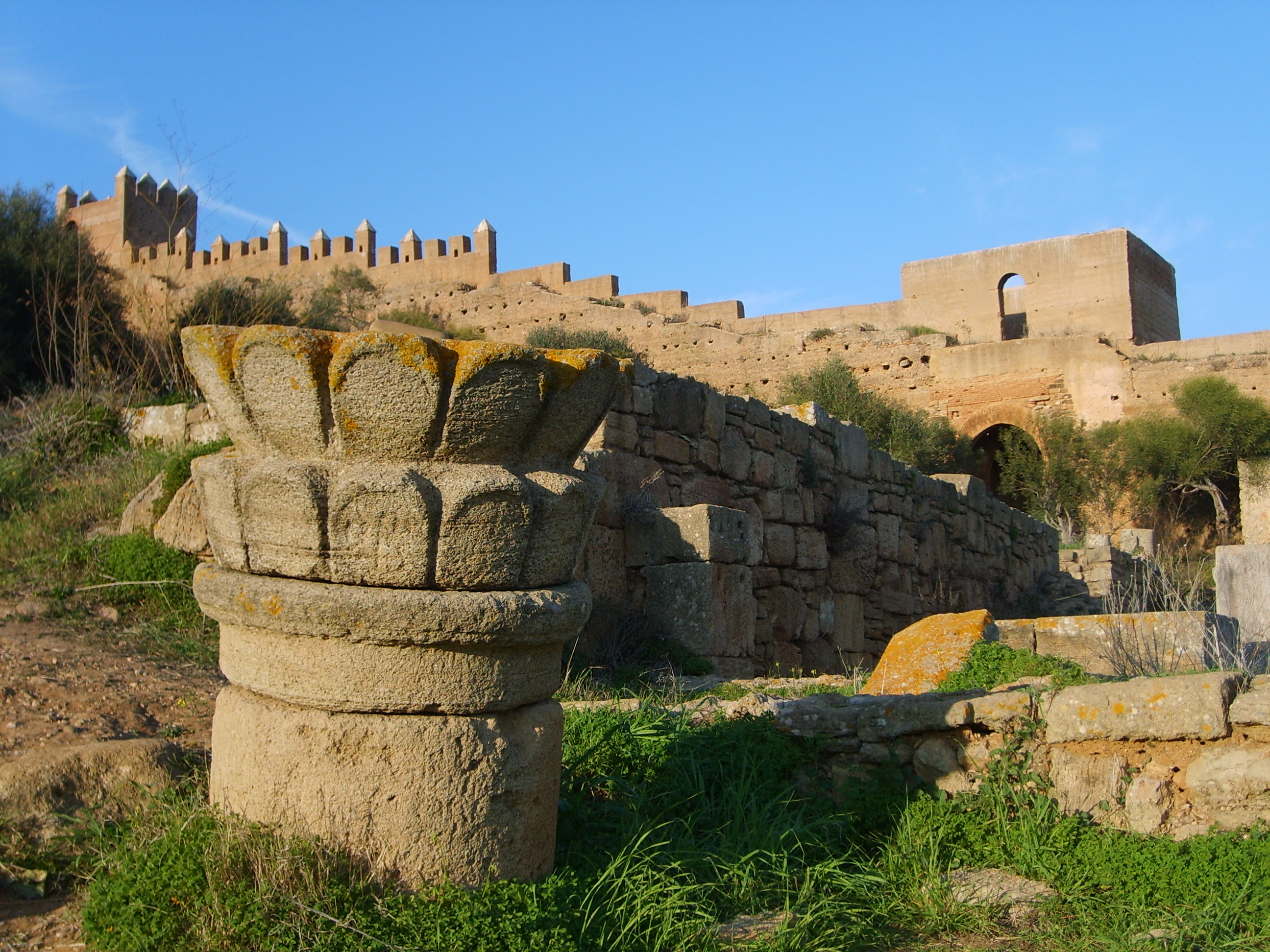 interior of Chellah ruins in Rabat, Morocco